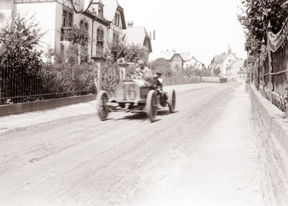 Gordon-Bennett-Cup June 17, 1904 Homburg near Frankfurt. Here a photo of a car on the Füllerstraße in Oberursel (Taunus).